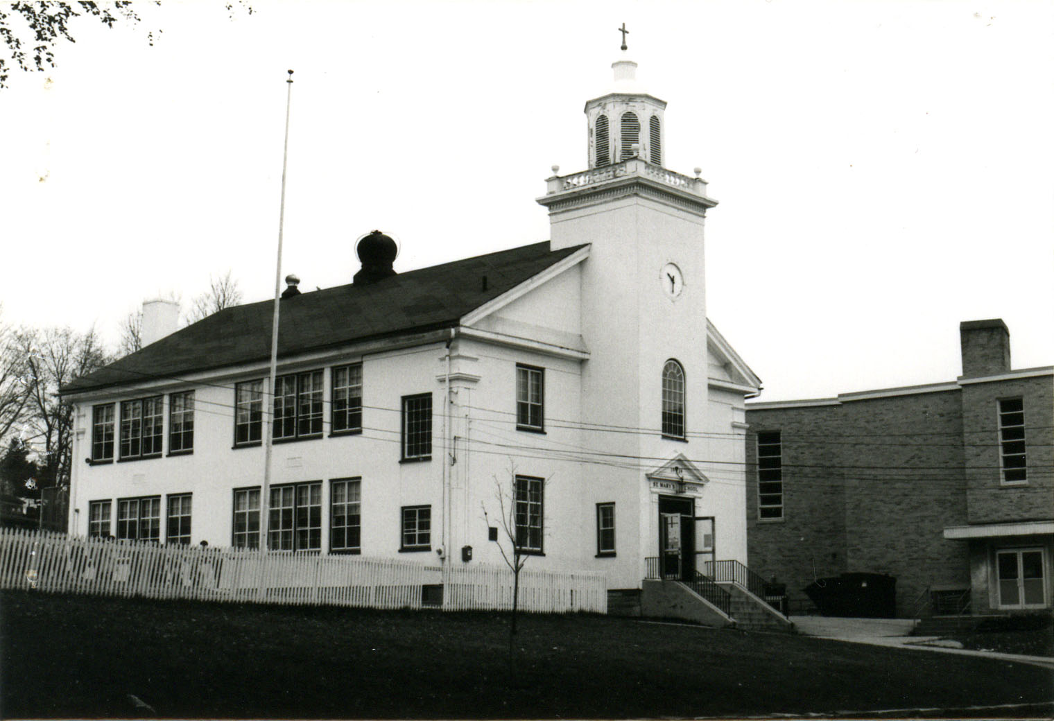 St. Peter's Roman Catholic Church-St. Mary's School, Southbridge, Massachusetts. Demolished in 1999.